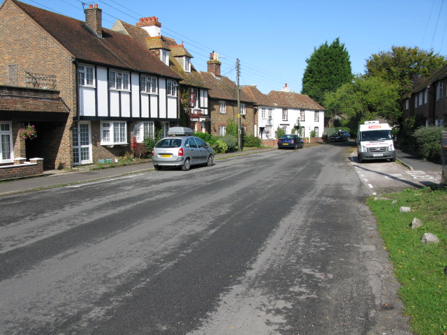 The Street, Newington